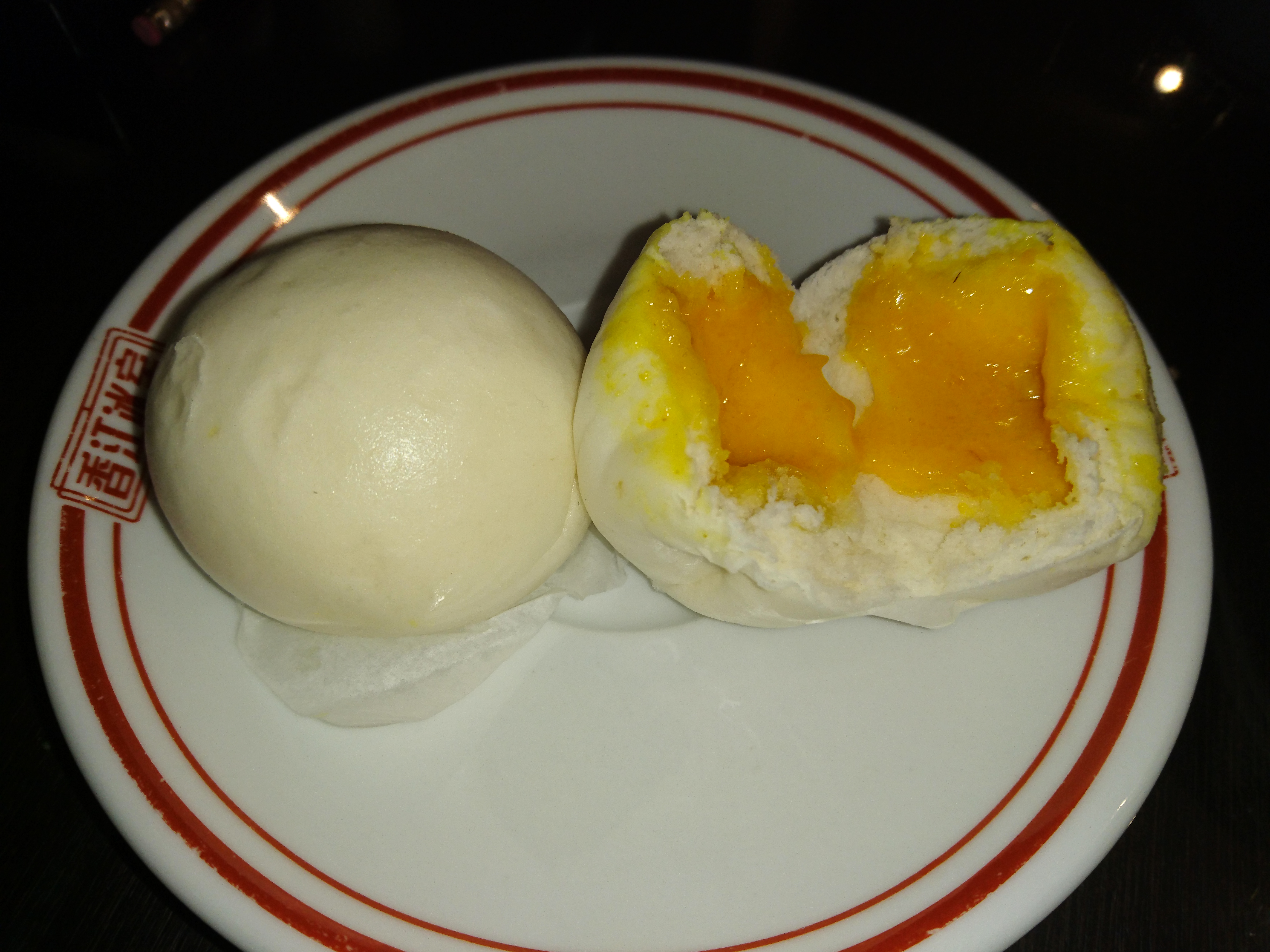 Flowing Custard Bun